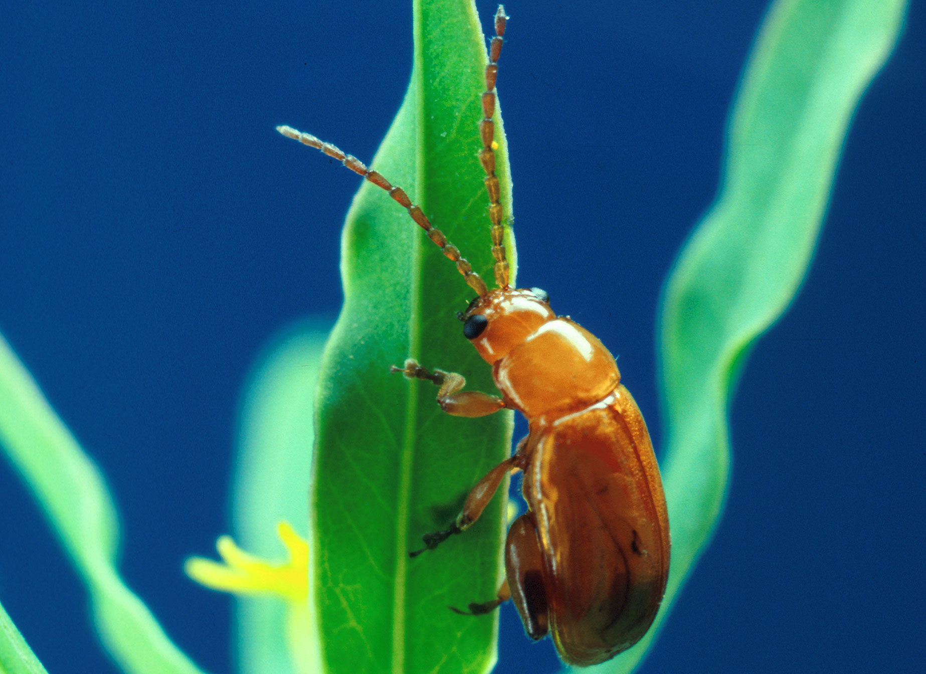 loslessly cropped version of Image:Aphthona flava flea beetle.jpg original description follows. Aphthona flava flea beetle feeding on leafy spurge. Image Number K2602-4.